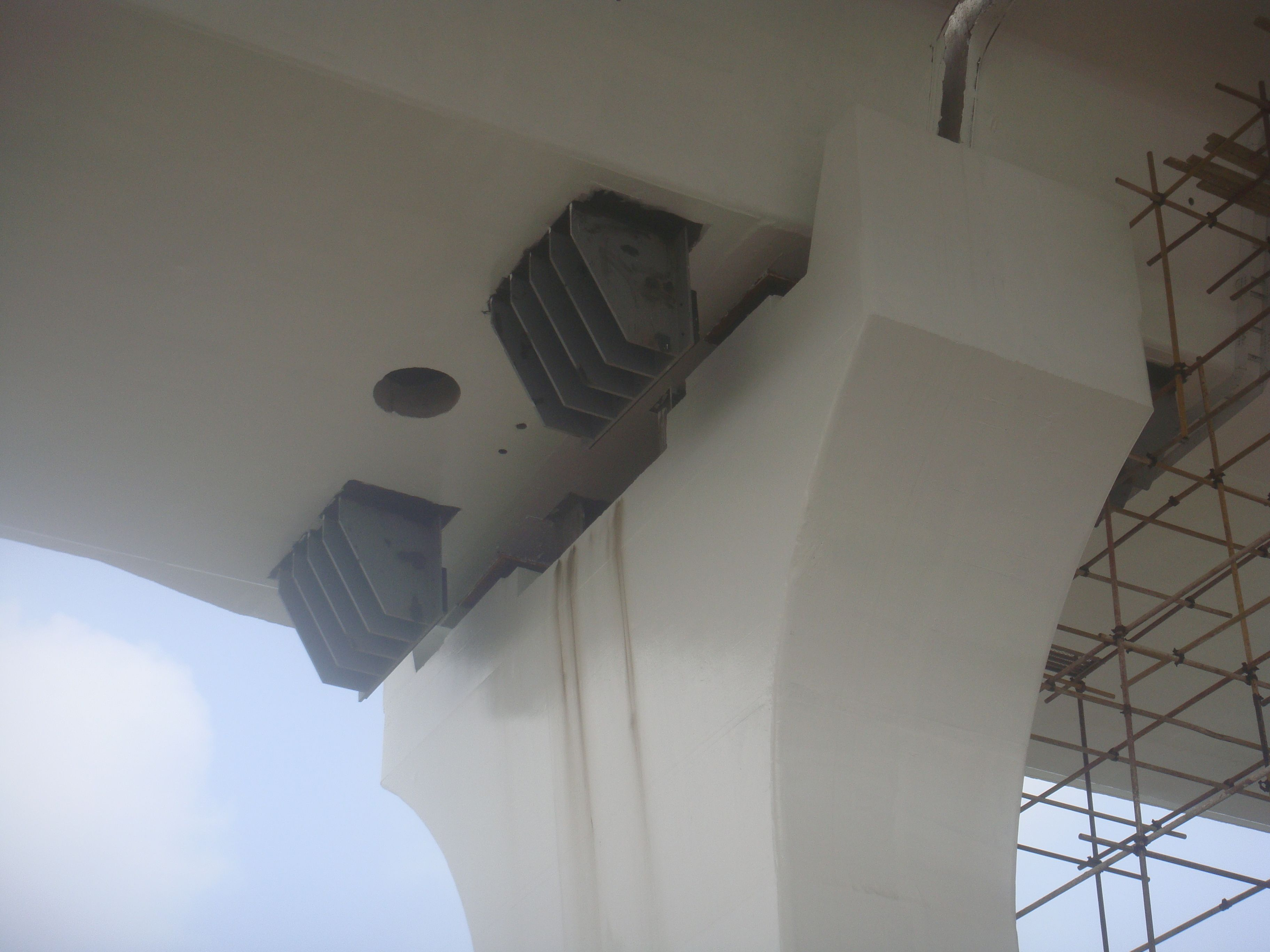 Puqian Bridge, Hainan, China